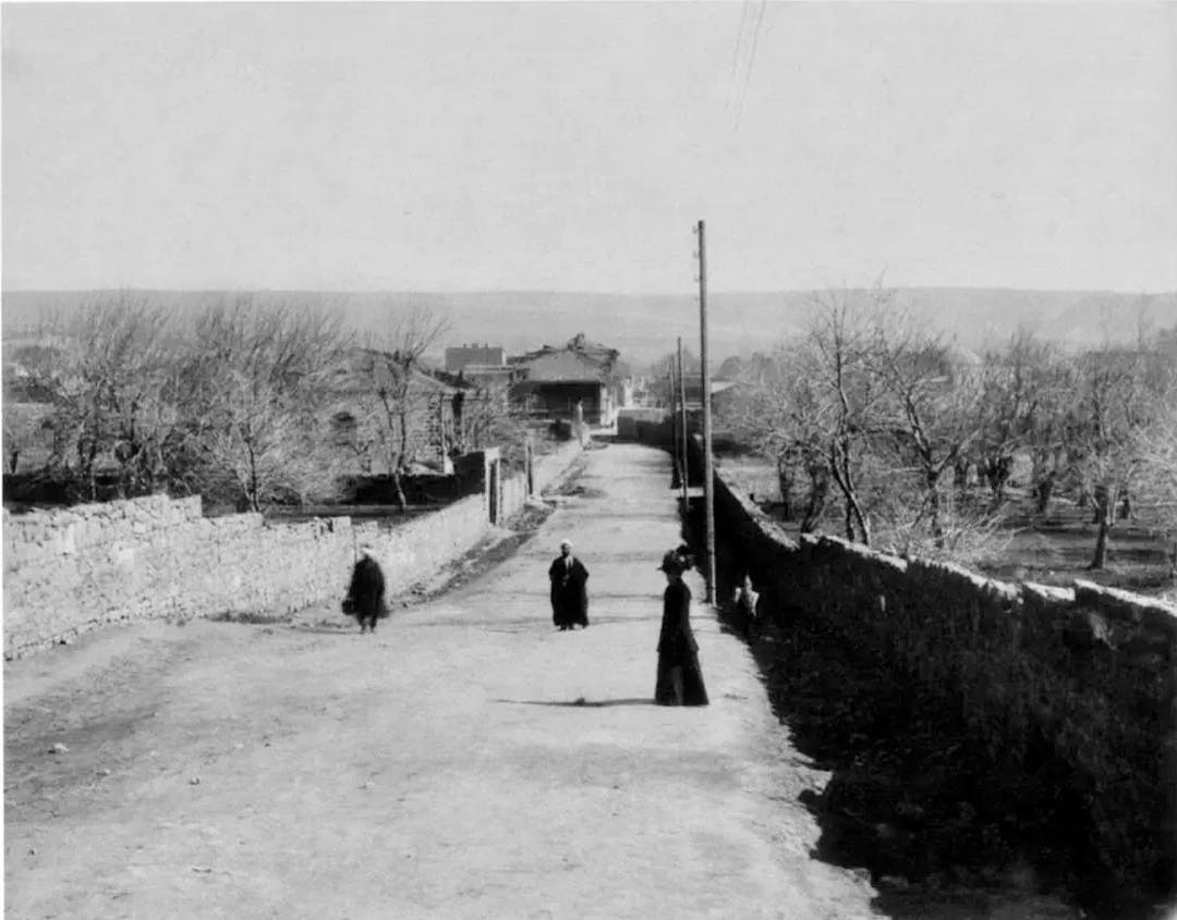 Armyanskaya street - modern Mashtots avenue, Yerevan, 1907